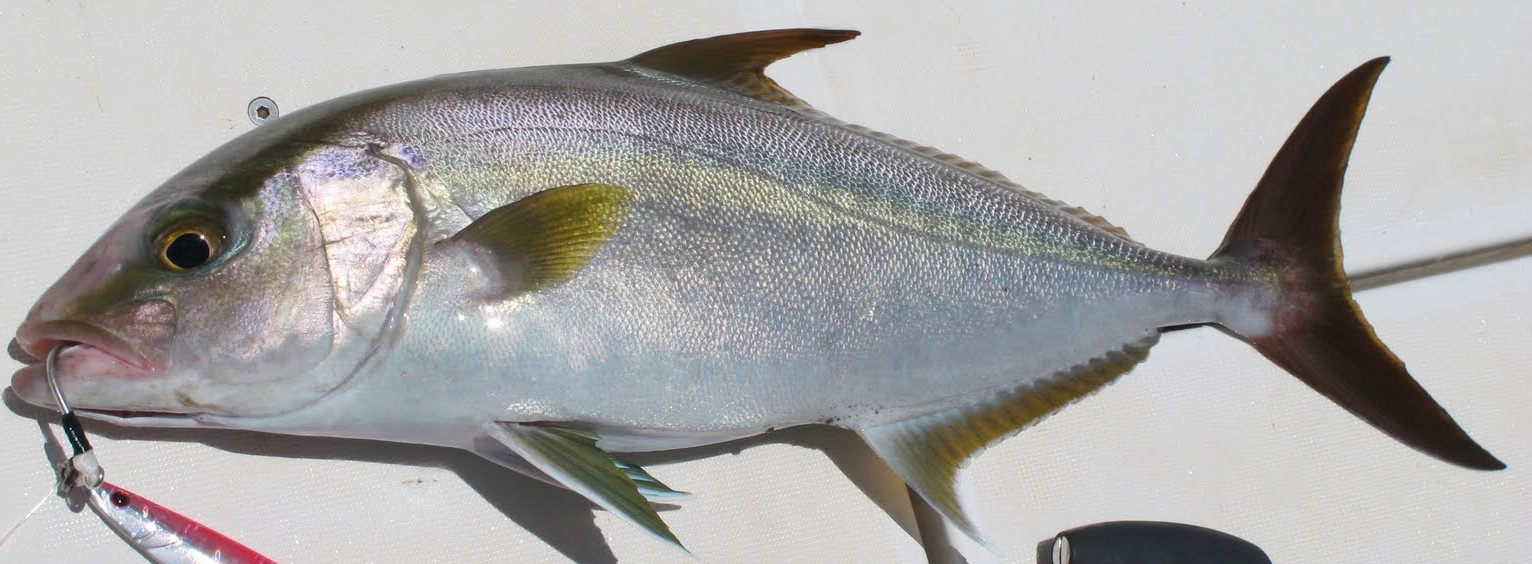 Almaco Jack from Palau